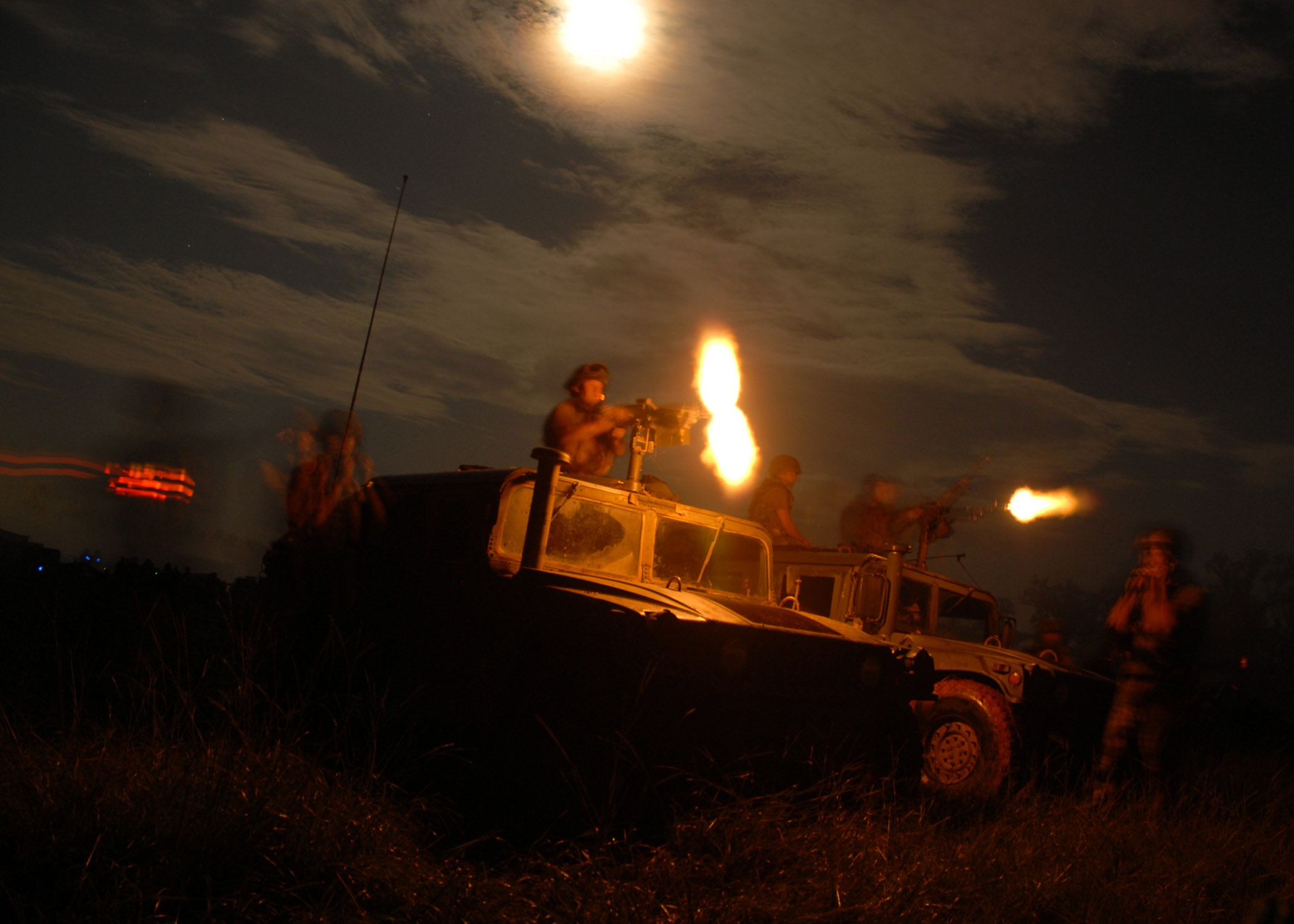 CAMP SHELBY, Miss. (June 27, 2007) - Two gunners from Naval Mobile Construction Battalion (NMCB) 1 convoy security teams fire the rest of their rounds following the final protective fire scenario of the Battalion's field exercise at Camp Shelby. NMCB-1 completed Operation 'Desert Heat'; a graded field exercise that assessed the battalion's contingency construction capabilities. U.S. Navy photo by Mass Communication Specialist 2nd Class Chad Runge (RELEASED)